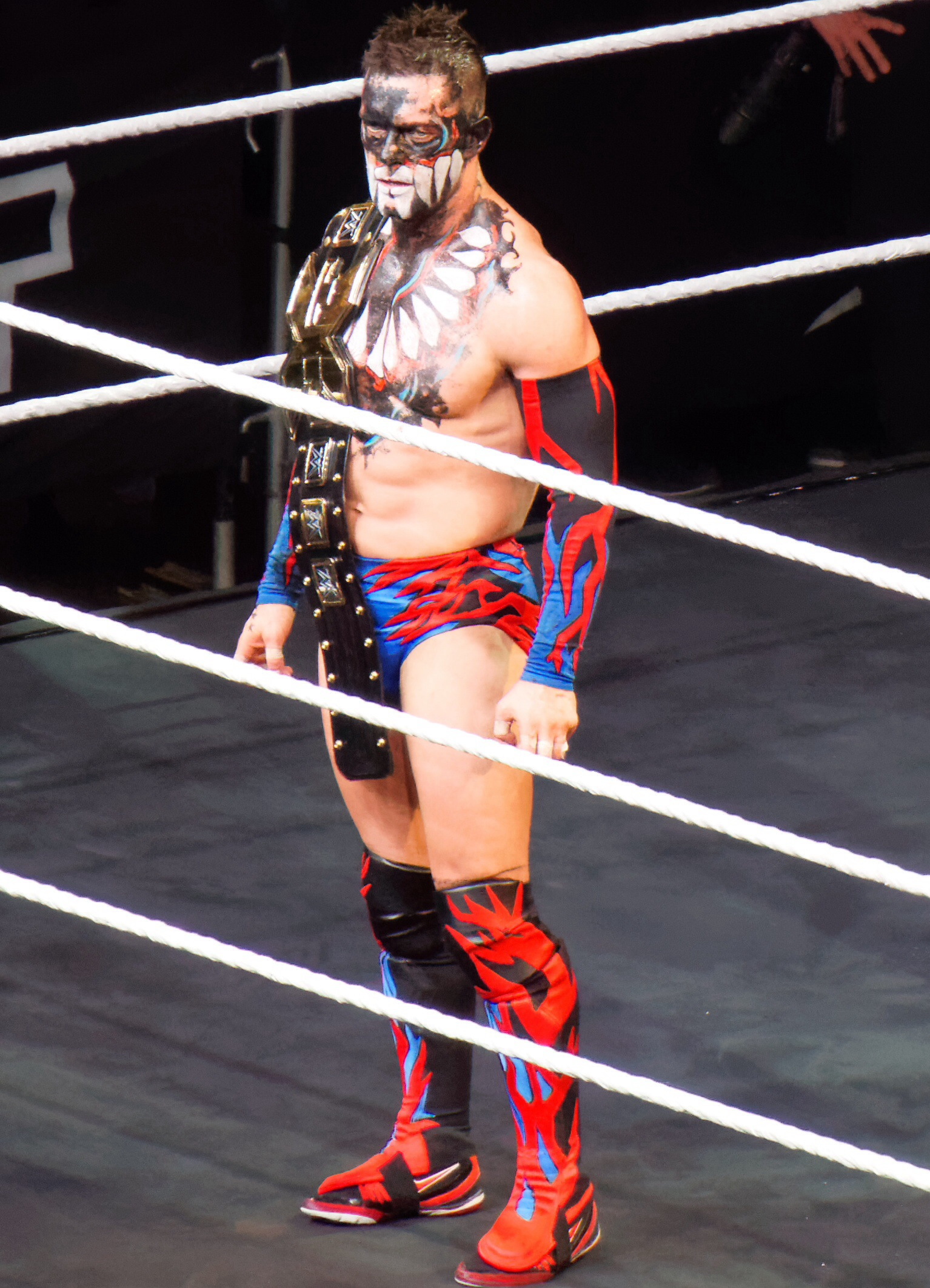 NXT TakeOver: Dallas was a major professional wrestling show in the NXT TakeOver series that took place on April 1, 2016, produced by WWE, showcasing its NXT developmental brand, and was streamed live on the WWE Network. It took place in the Kay Bailey Hutchison Convention Center in Dallas, Texas, during the weekend of WrestleMania 32. It was the first show in the NXT TakeOver series to be broadcast live on the WWE Network during WrestleMania weekend and first of 2016.[4] It was notable for Shinsuke Nakamura's WWE debut and first live match. The event received critical acclaim, with critics endorsing it as being better than WWE's WrestleMania 32 held two days later. The Zayn-Nakamura match was also lauded for being better than any match from WrestleMania 32. Finn Balor (c) def. (pin) Samoa Joe for the NXT Championship